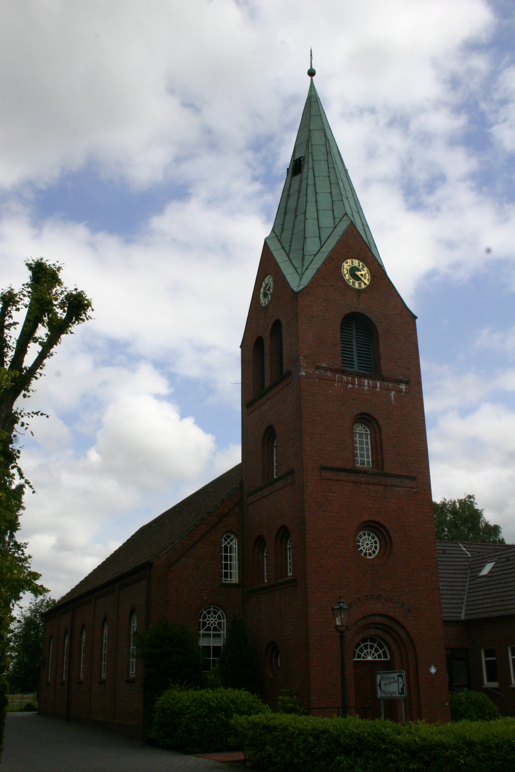 Historic James' Church in Warsingsfehn, district of Leer, East Frisia, Germany